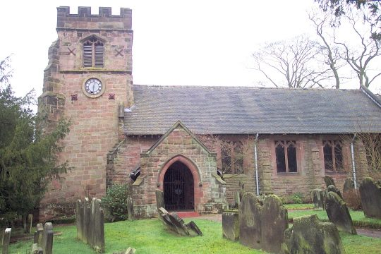 Barlaston Old Church, St. John the Baptist. The church was closed due to mining subsidence and a new church with the same dedication built at a different site in the village.